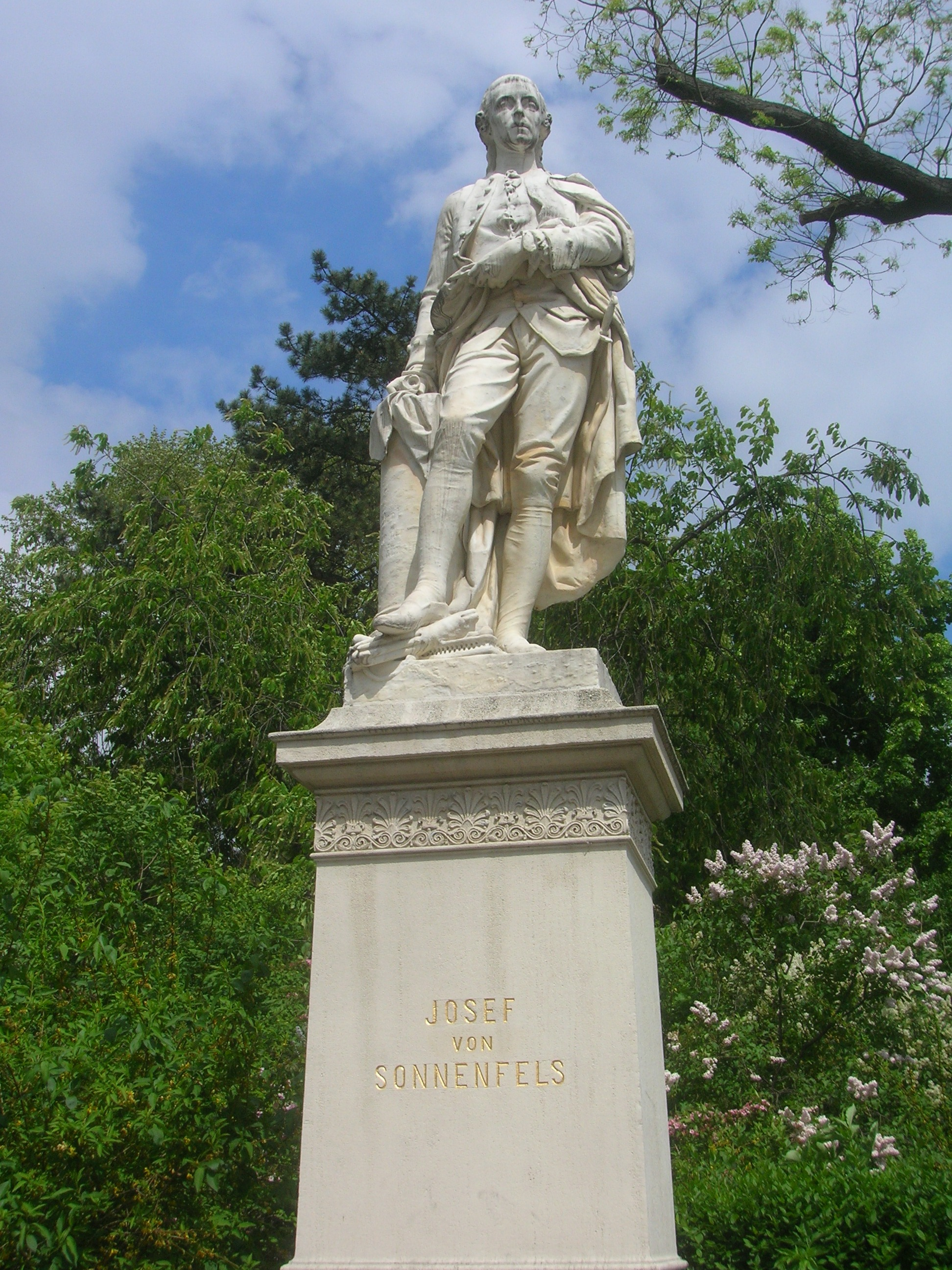 Statue of Joseph von Sonnenfels at the Rathausplatz in Vienna.